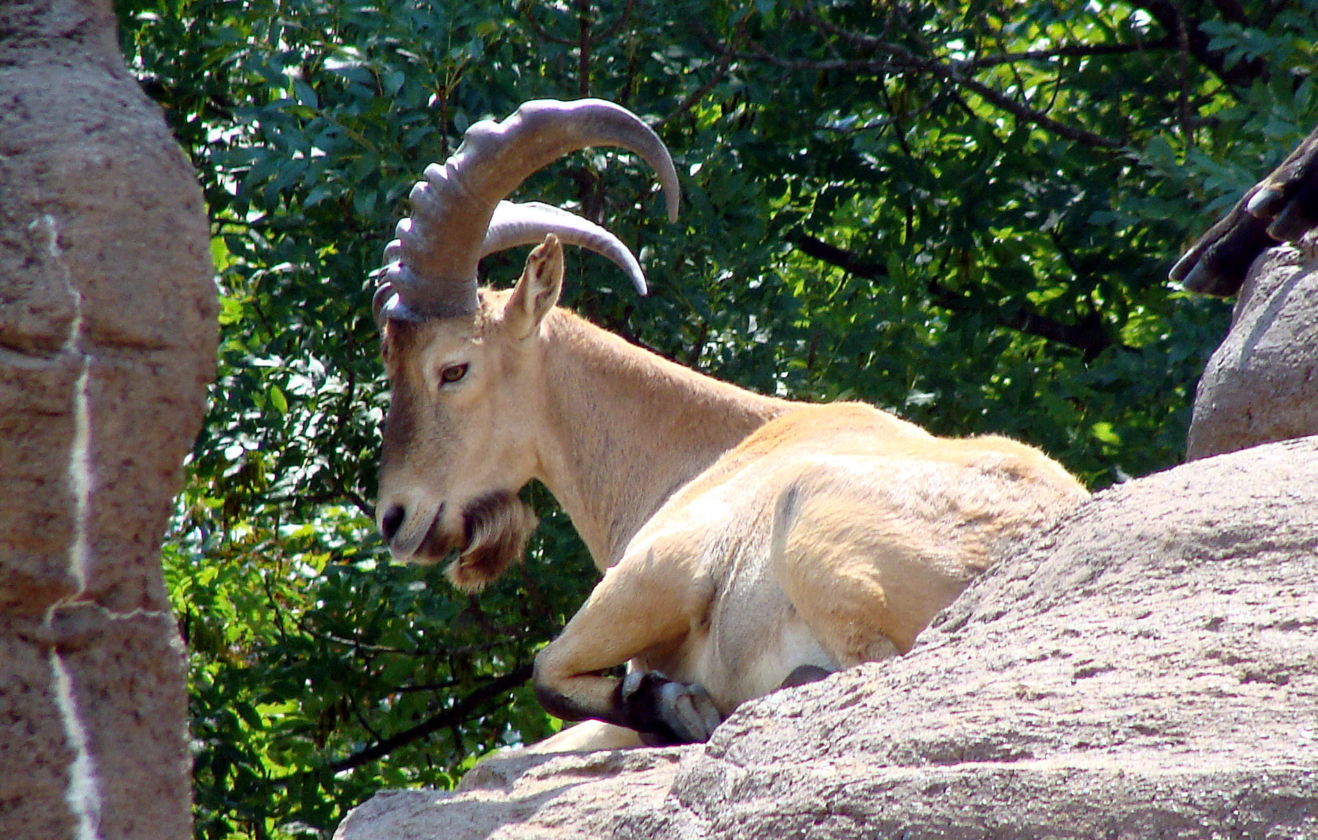 A picture of a West Caucasian Tur